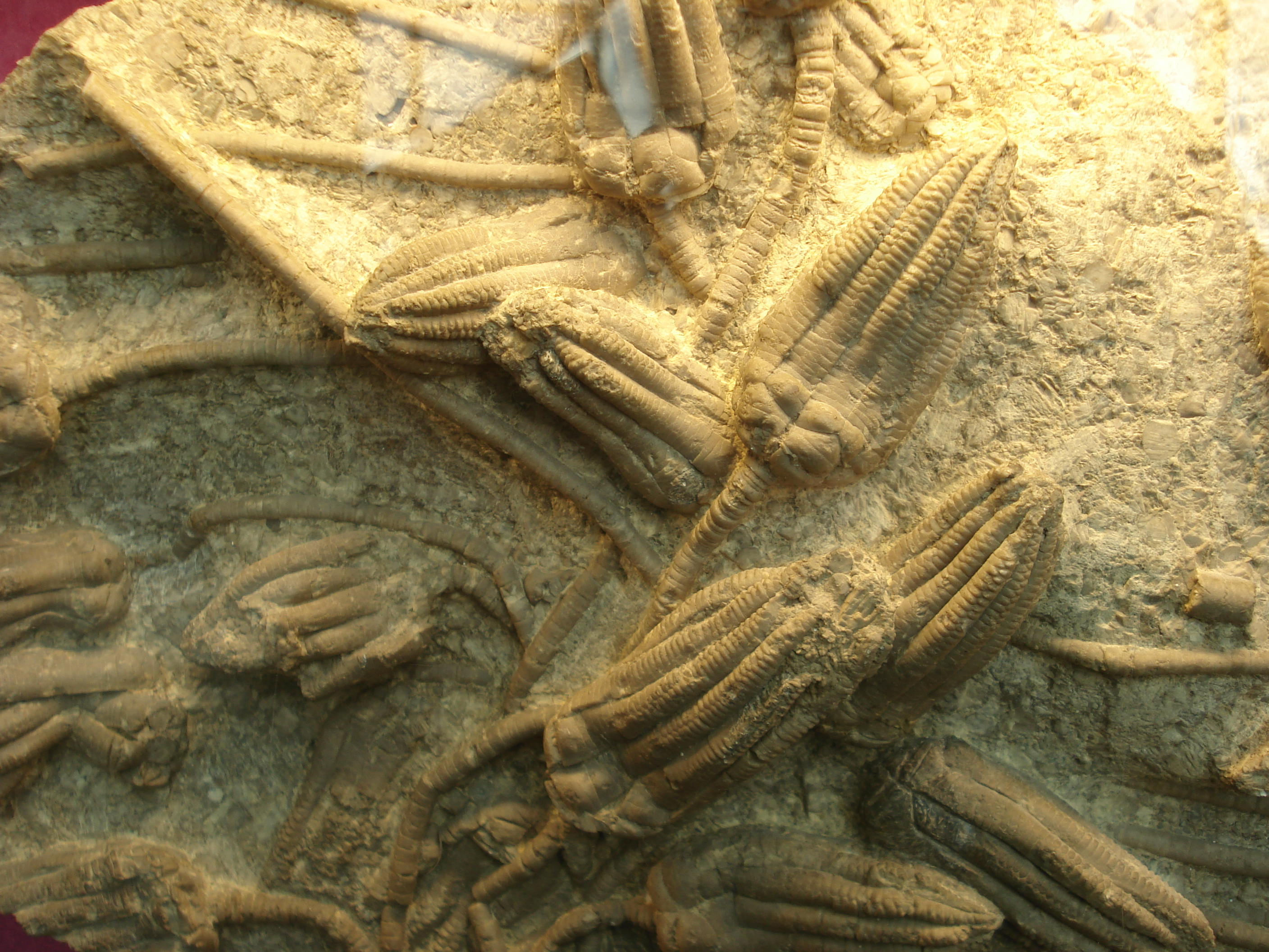 fossil of encrinus